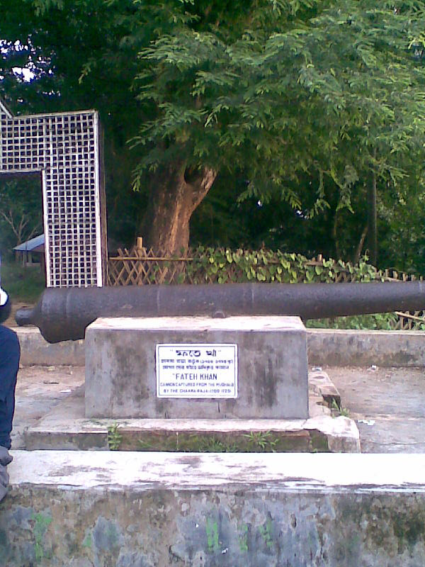 The cannon "Fateh Khan" occupied by the Chakma King from the the Mughals war. Now it is at 'Rajbari ' in Rangamati, Bangladesh.